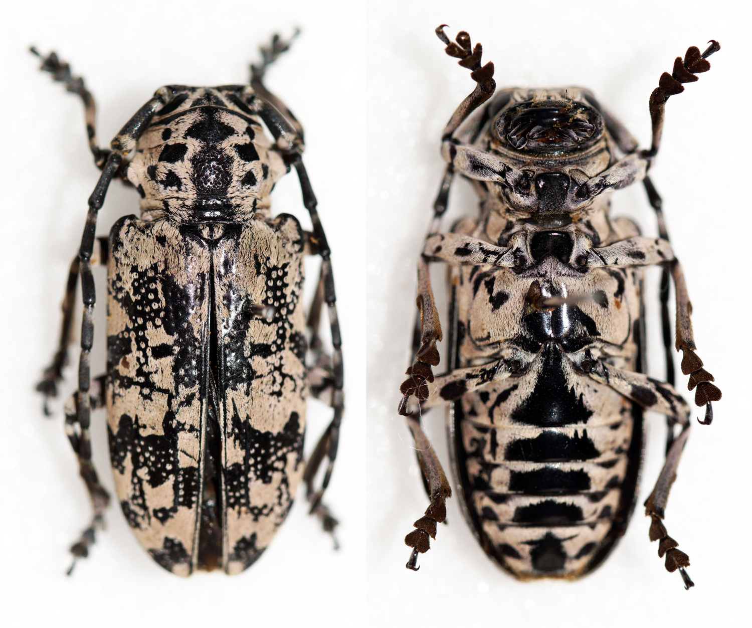 Westwood,1845 Sex: Female Data: 04-2014 - Kloto - Togo Size: ?